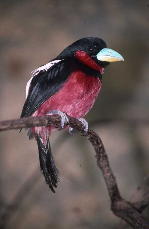 Cymbirhynchus macrorhynchos in Wuppertal Zoo, Germany